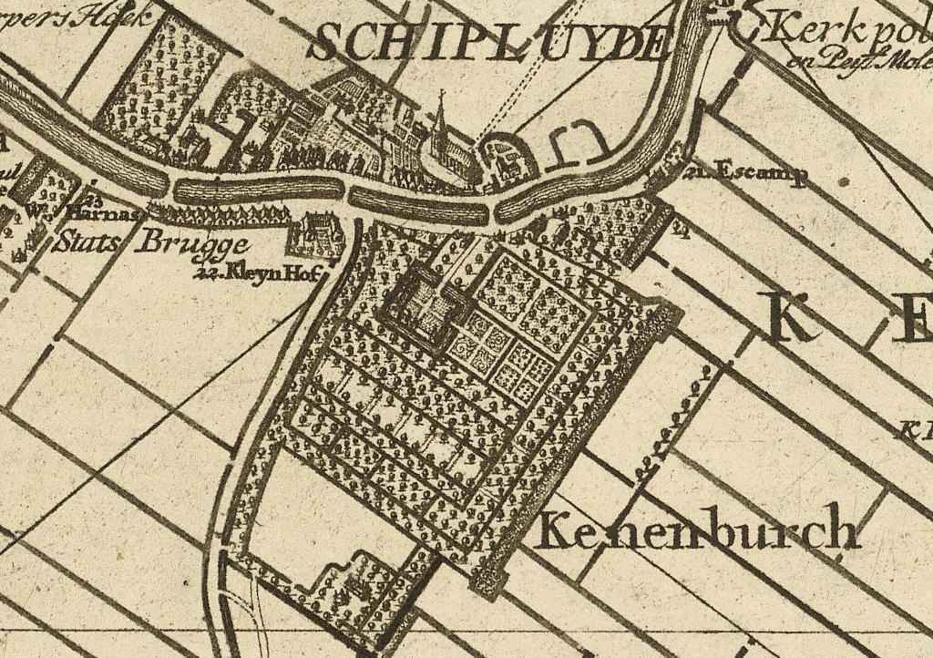 map of castle keenenburg in schipluiden, the Netherlands